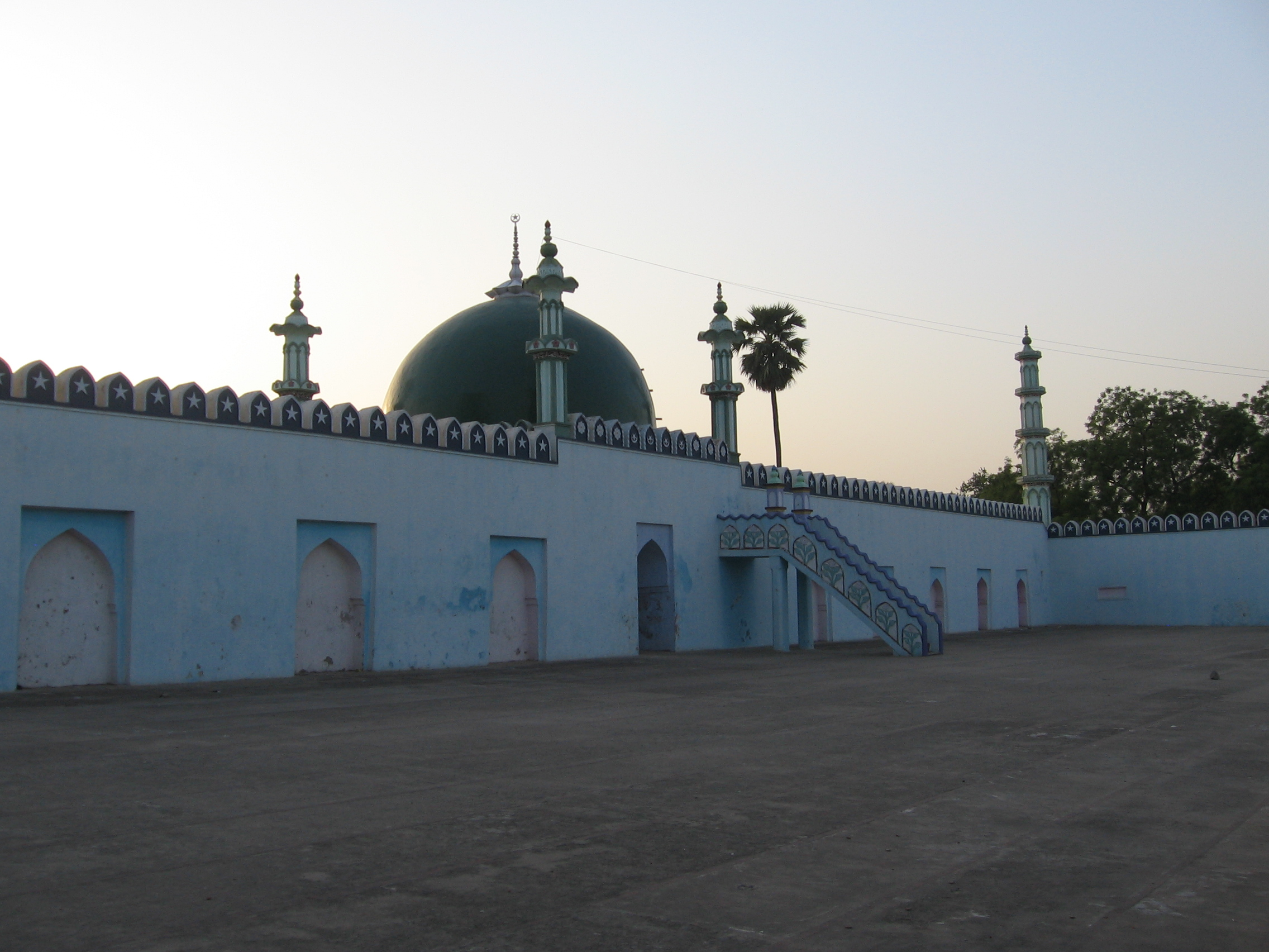 Badi Dargah